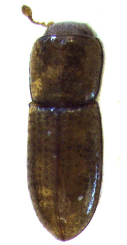 adult Anommatus duodecimstriatus, length about 1.5 mm. Motutapu Island, Remnant 18, beneath planted karo in open area. Hauraki Gulf, Auckland Region, New Zealand, 28 May-25 Jun 2011.